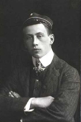 Danish architect Therkel Hjejle (1884-1927)